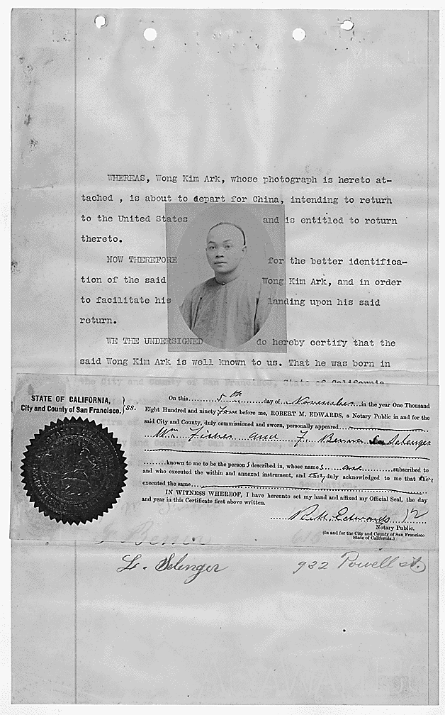 Sworn Statement of Witnesses verifying Departure Statement of Wong Kim Ark, 11/02/1894